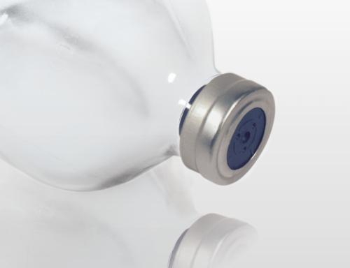 EMPT crimping of vials at PSTproducts GmbH